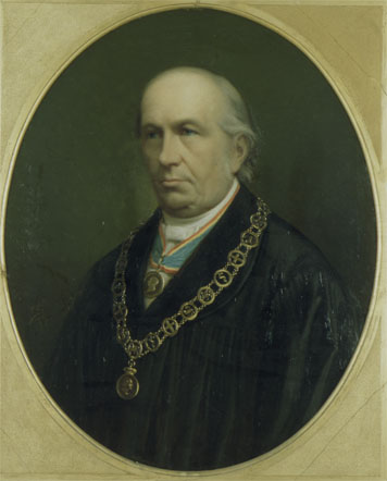 Portrait of de;Otto Carsten Krabbe as Rektor of the University of Rostock, collection of the university of Rostock, c. 1874